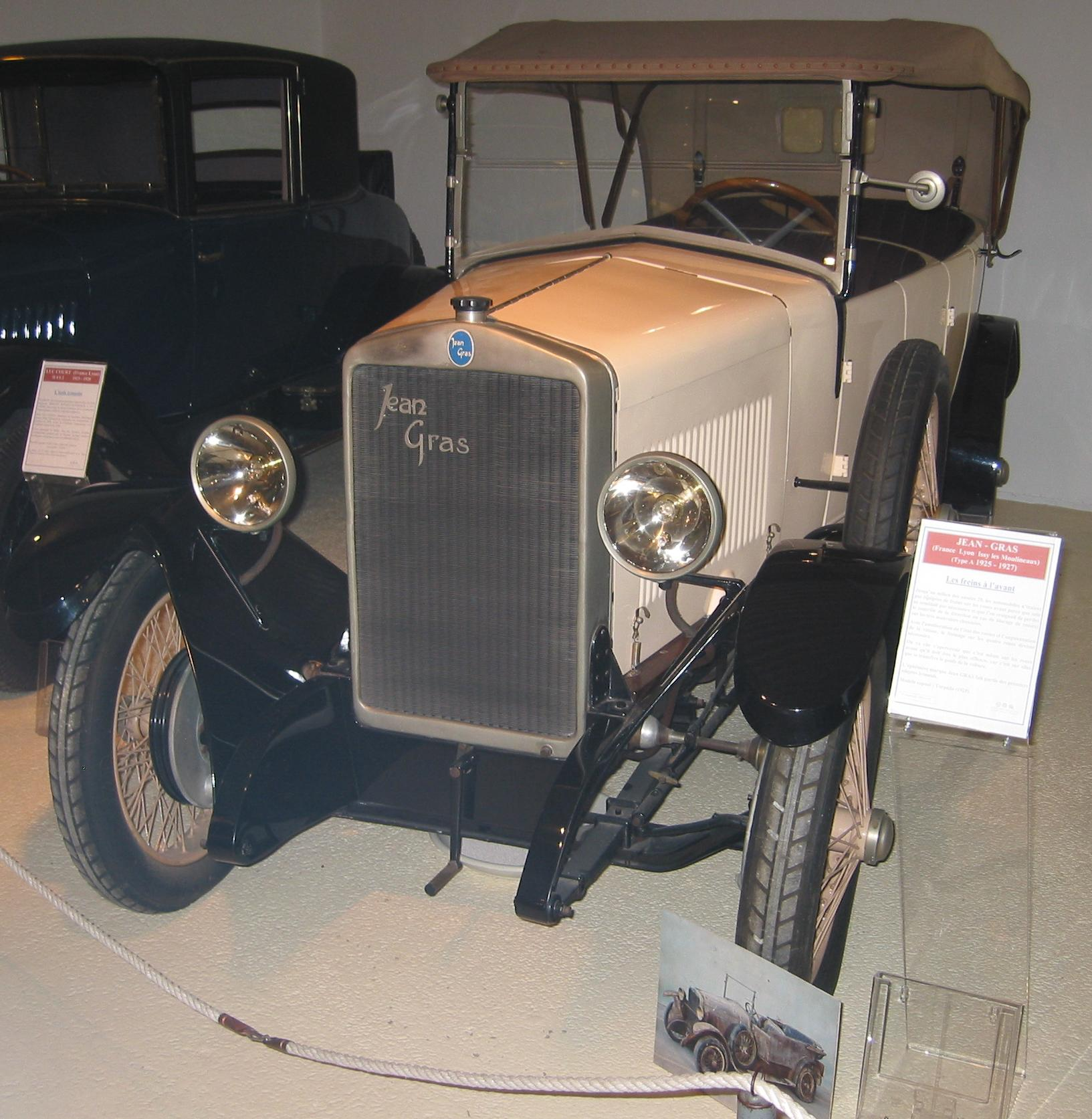 Jean Gras 1925 (Country of origin: France)